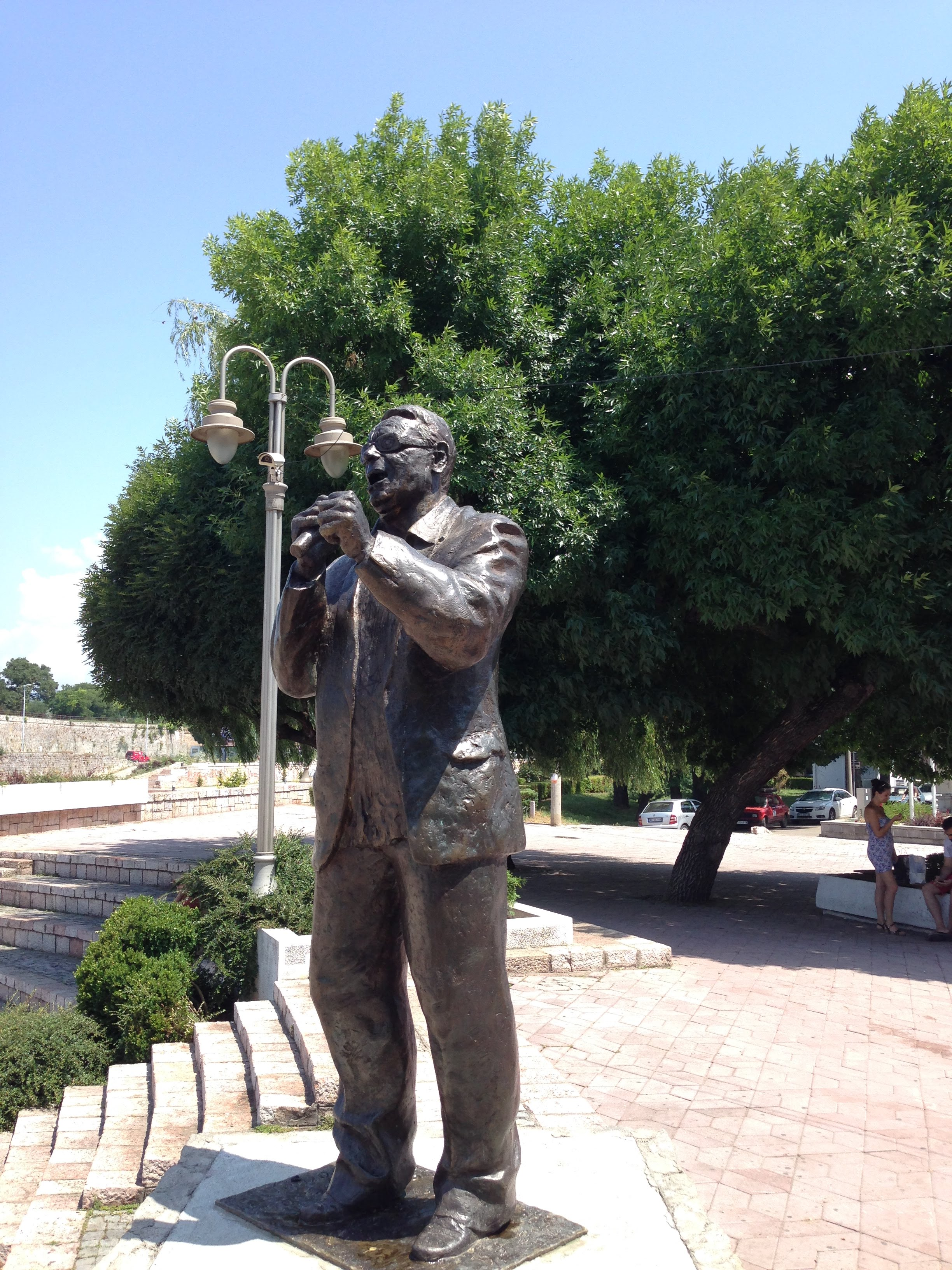 Šaban Bajramović